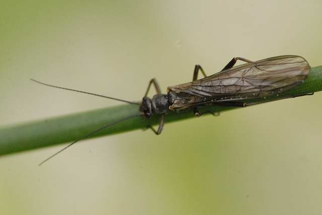 Protonemura meyeri from Commanster, Belgian High Ardennes .